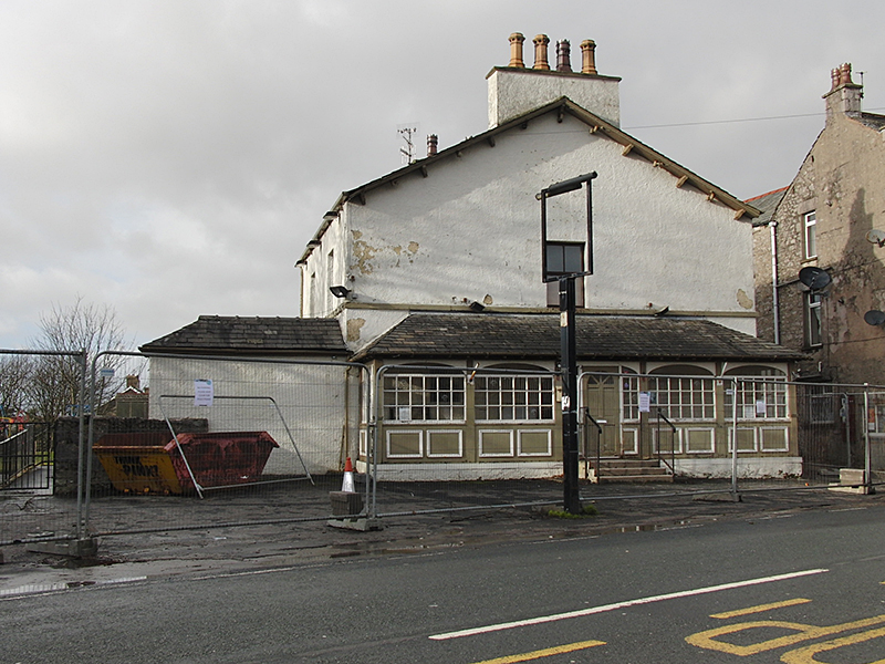 A front-on view of the Royal Hotel, Silverdale, showing the run-down state of the building and the fencing and skip brought in since the pub was closed.